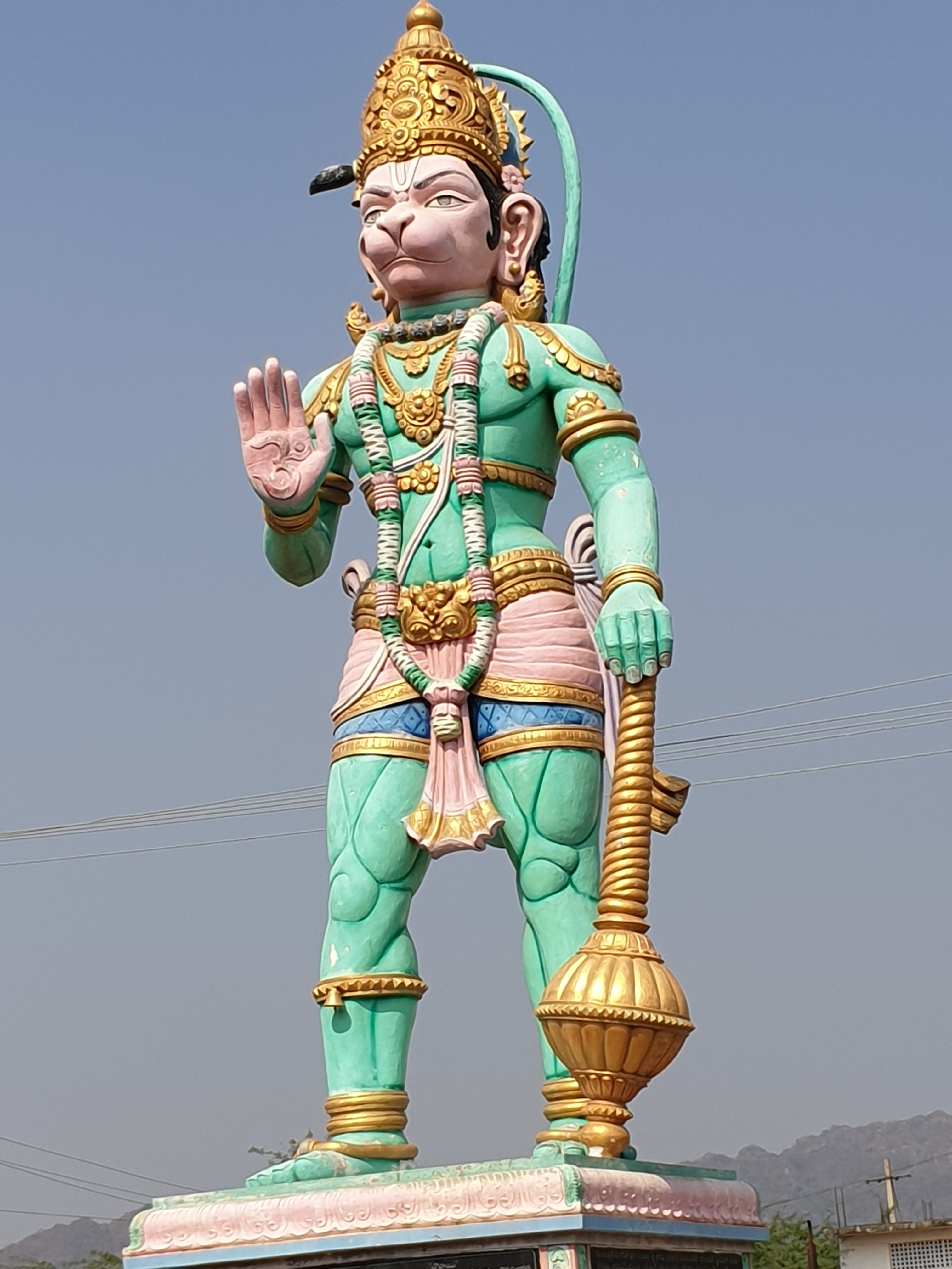 Large statue of Hanuman at Viswanagar